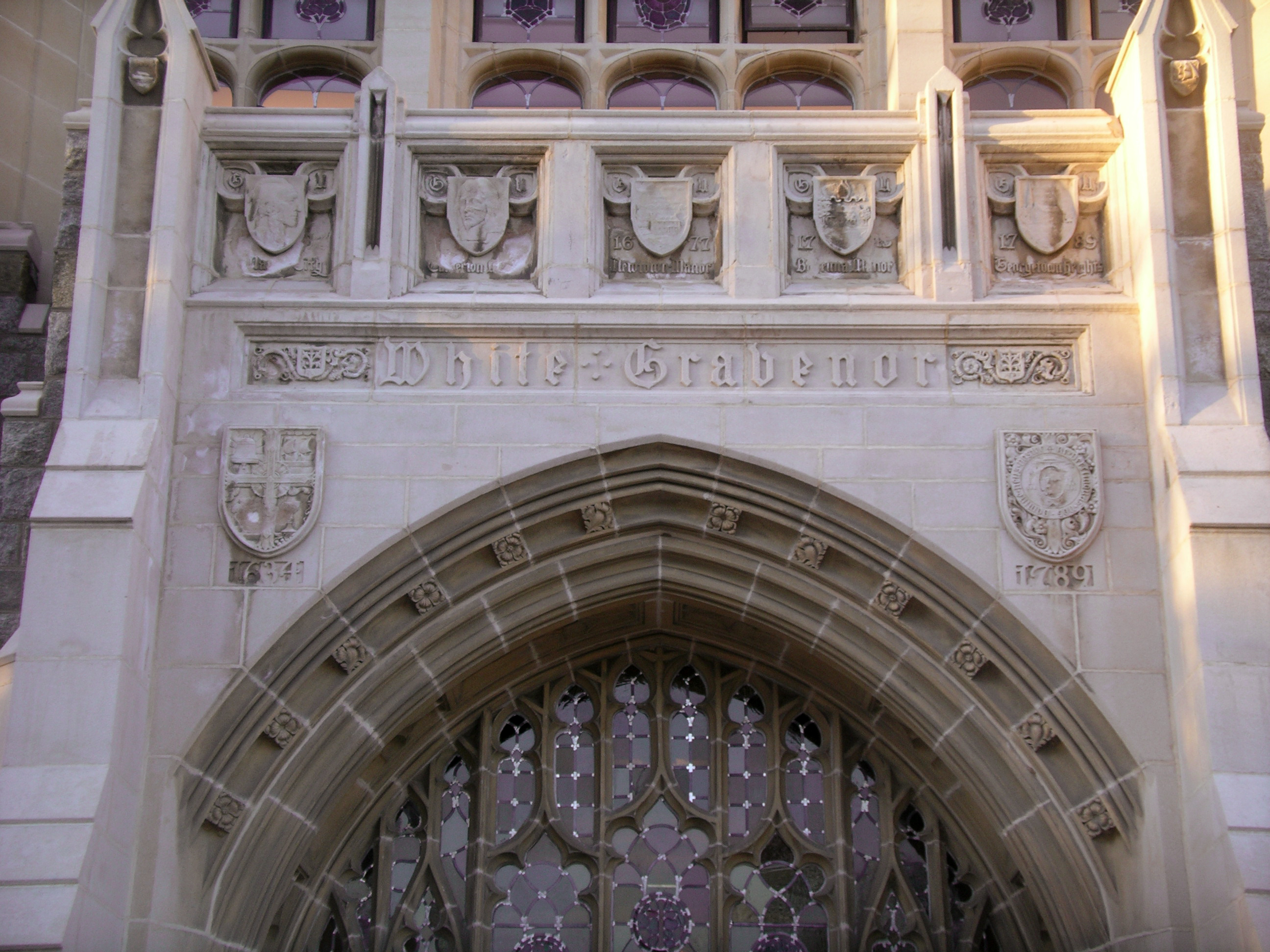 The doorway over Georgetown University's White-Gravenor building, illustrating the two dates 1634 and 1789.